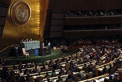 United Nations General Assembly